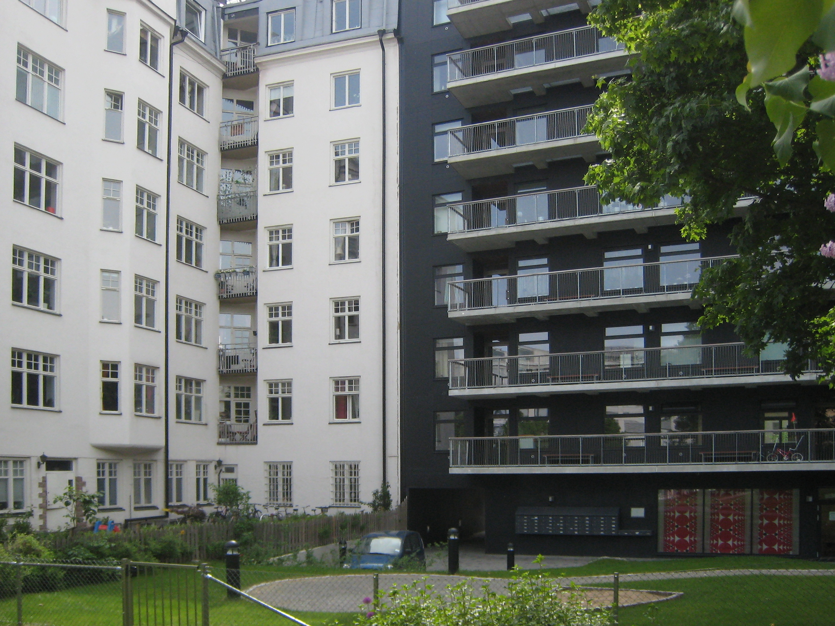 Gården i kvarteret Stora Katrineberg.